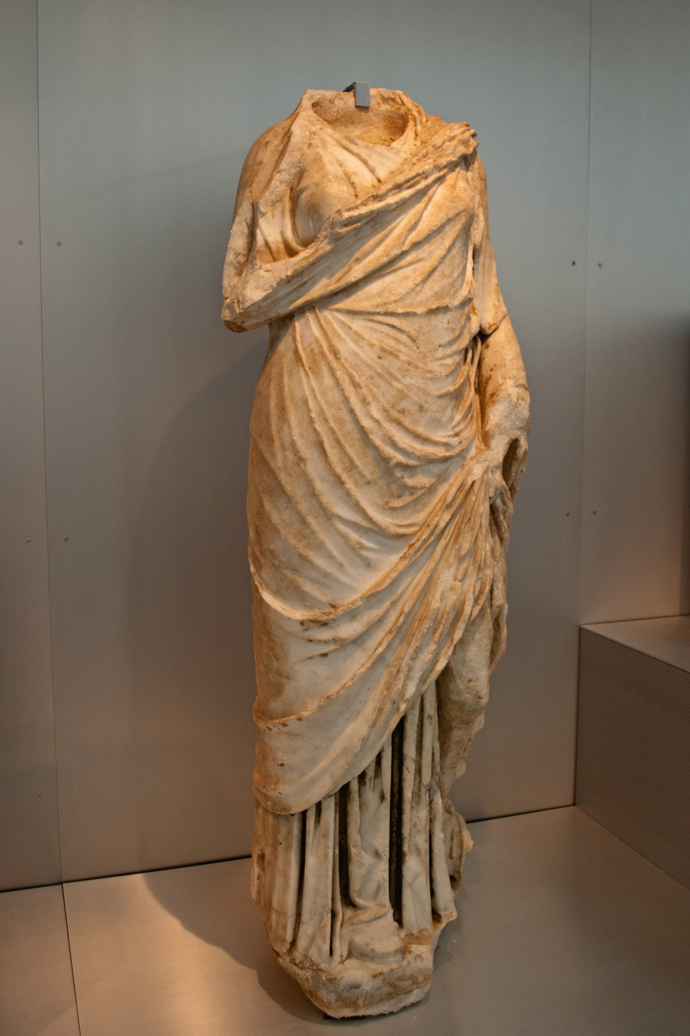 Statue of a lady or goddess with palla and stola. Marble, 1st century AD (Gate of Carteia) Baelo Claudia, Spain.